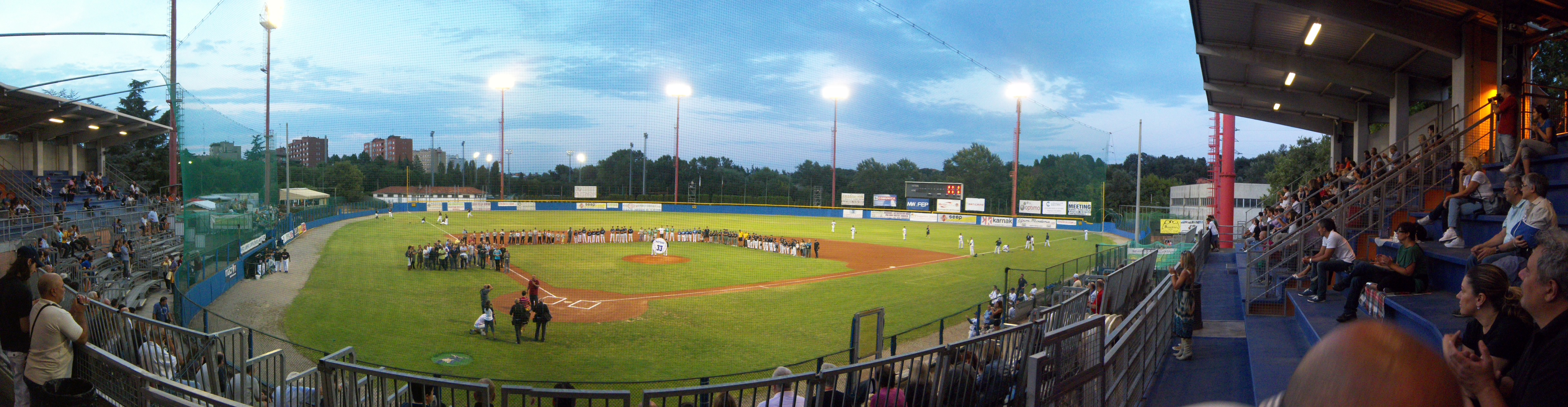 Fortitudo Baseball Bologna retires number 33 of Riccardo Matteucci. Bologna, "Gianni Falchi" Ballpark, 28 July 2011